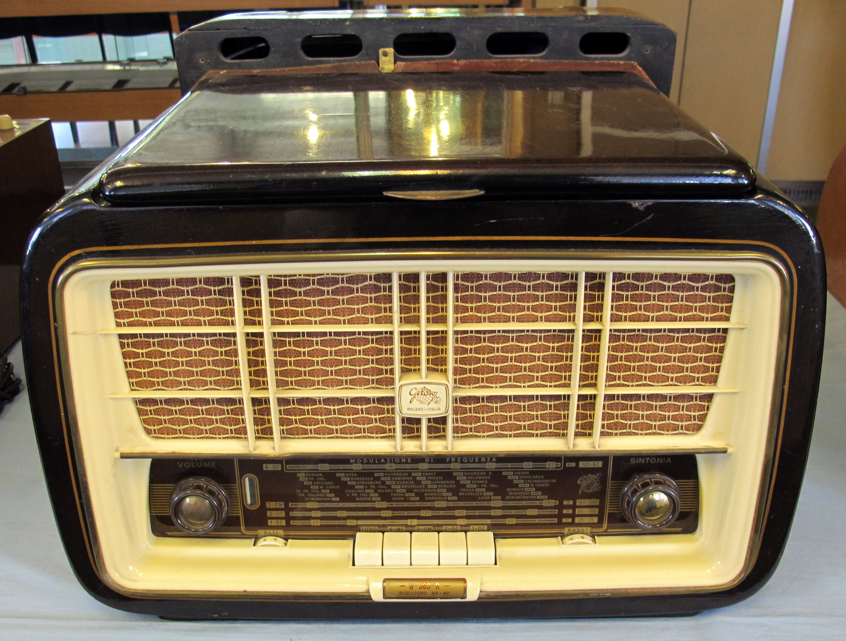 Antique radios amateurs exhibition (Florence 2014)